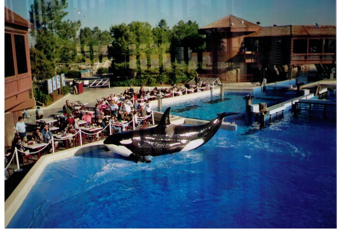 Orca's during the show at Sea World (San Diego, CA, USA)